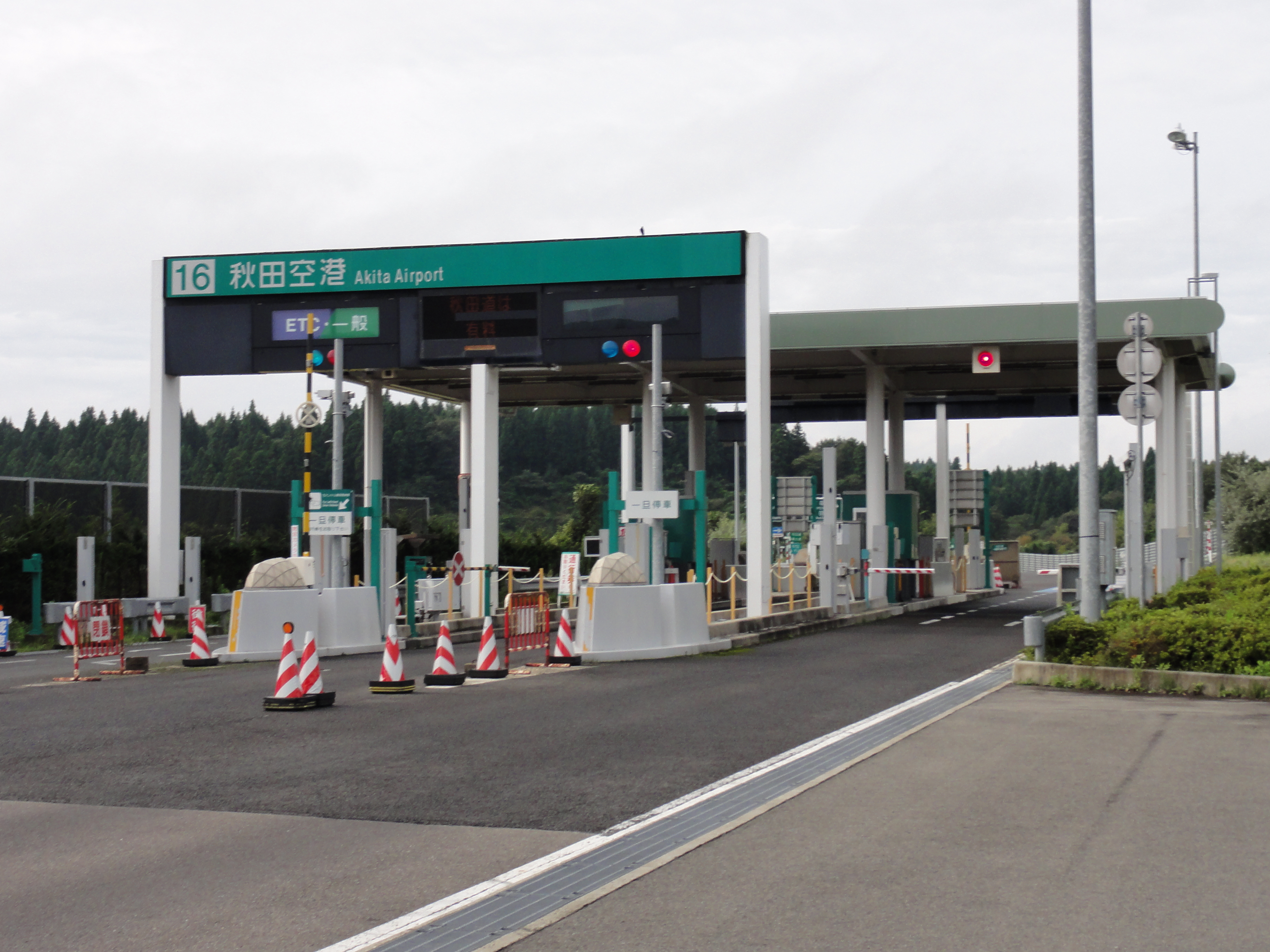 Akita-Airport Interchange,Akita Pref., Japan